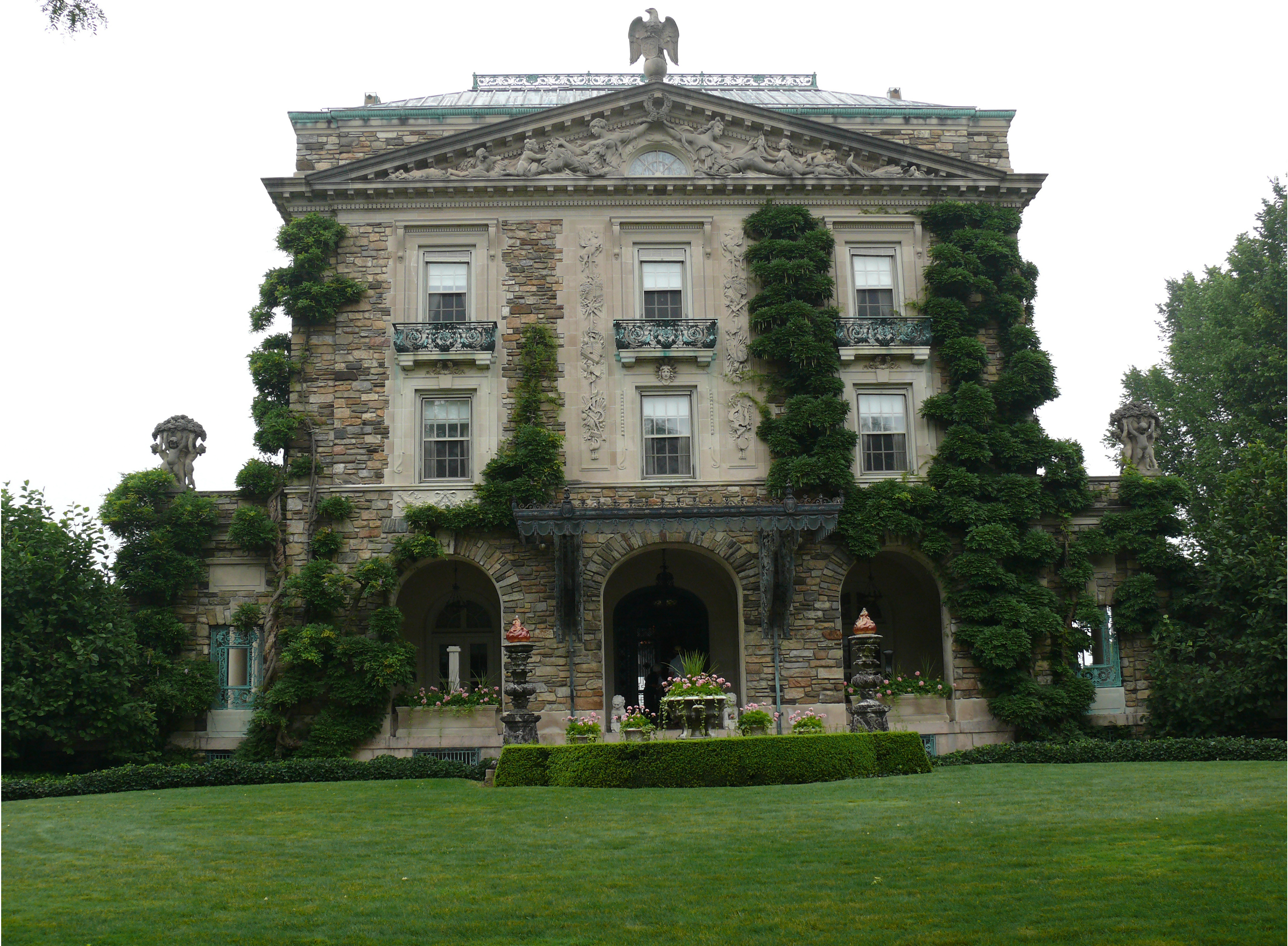 Kykuit, also known as John D. Rockefeller Estate, is a 40-room National Trust house in Westchester County, New York, built by the oil businessman, philanthropist and founder of the prominent Rockefeller family, John D. Rockefeller (Senior), and his son, John D. Rockefeller Jr (Junior). Kykuit is een historisch woonverblijf dat in 1913 in opdracht van John D. Rockefeller werd gebouwd door de architecten Chester Holmes Aldrich en William Adams Delano.